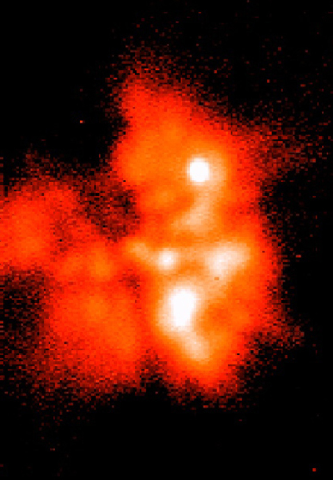 This is one of series of mid-infrared images of the BN/KL complex, a star-forming region deep inside the Orion Nebula, obtained with ESOs Thermal Infrared MultiMode Instrument (TIMMI2), mounted at the Cassegrain focus of the 3.6-m telescope on La Silla. The area is located close to the Trapezium cluster. The dust is more transparent at longer wavelengths and the complex is clearly seen in this image obtained with TIMMI2 at wavelengths of 20.0µm. It shows in some detail the structures around the compact sources and the extended thermal emission from the dust. The brighter areas are the hotter ones.